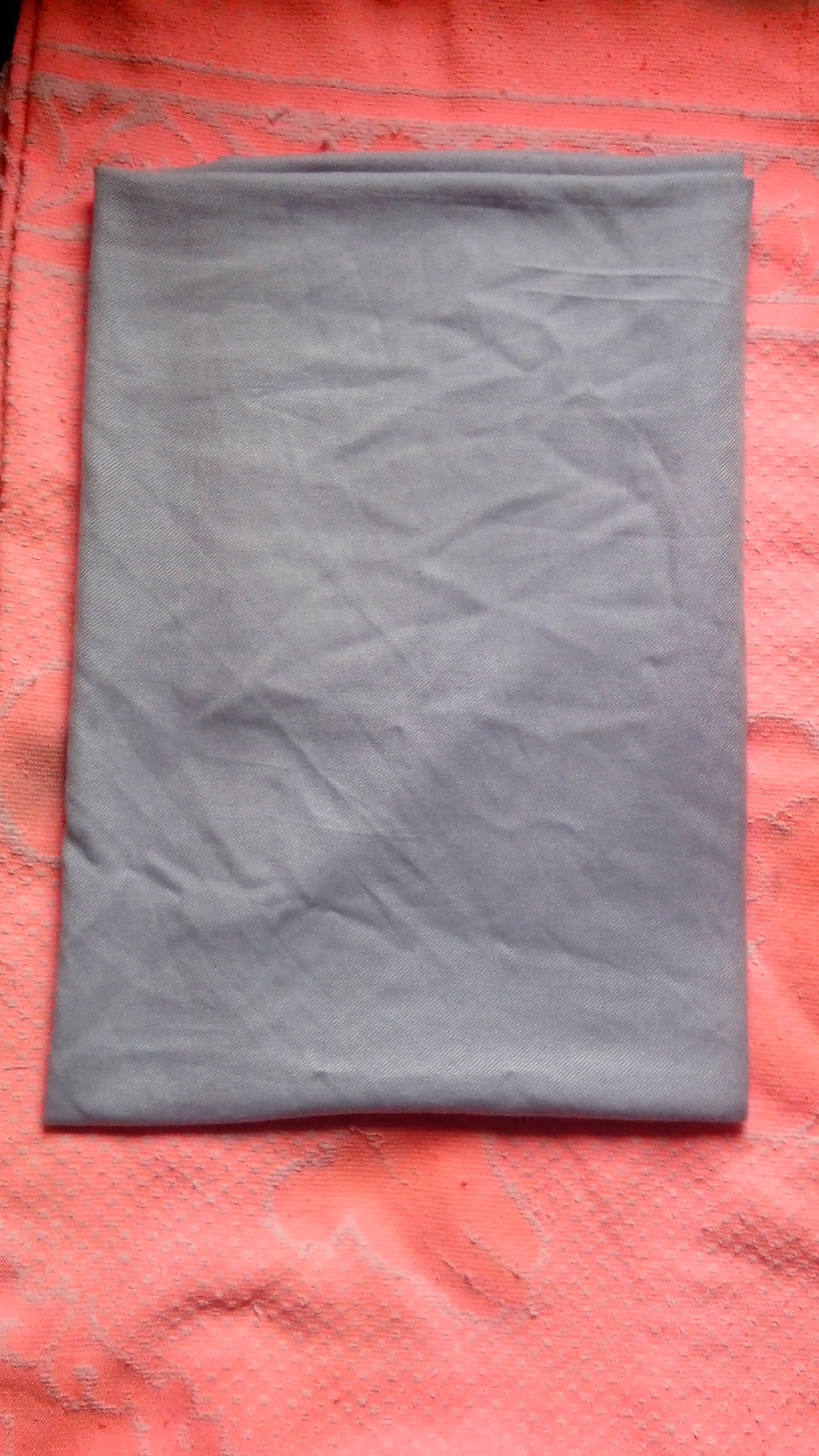 2 Selimut Kain